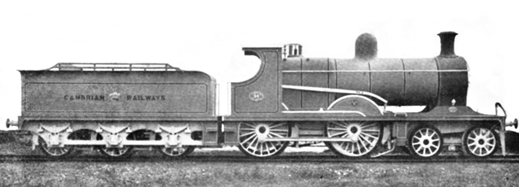 "Latest Passenger Express Engine", from "The Story of the Cambrian" (1922). Jones 4-4-0 "94" Class No. 94 (GWR No. 1014); introduced in 1903-4, the "94" class were the largest Cambrian engines and worked over the main line until 1942.